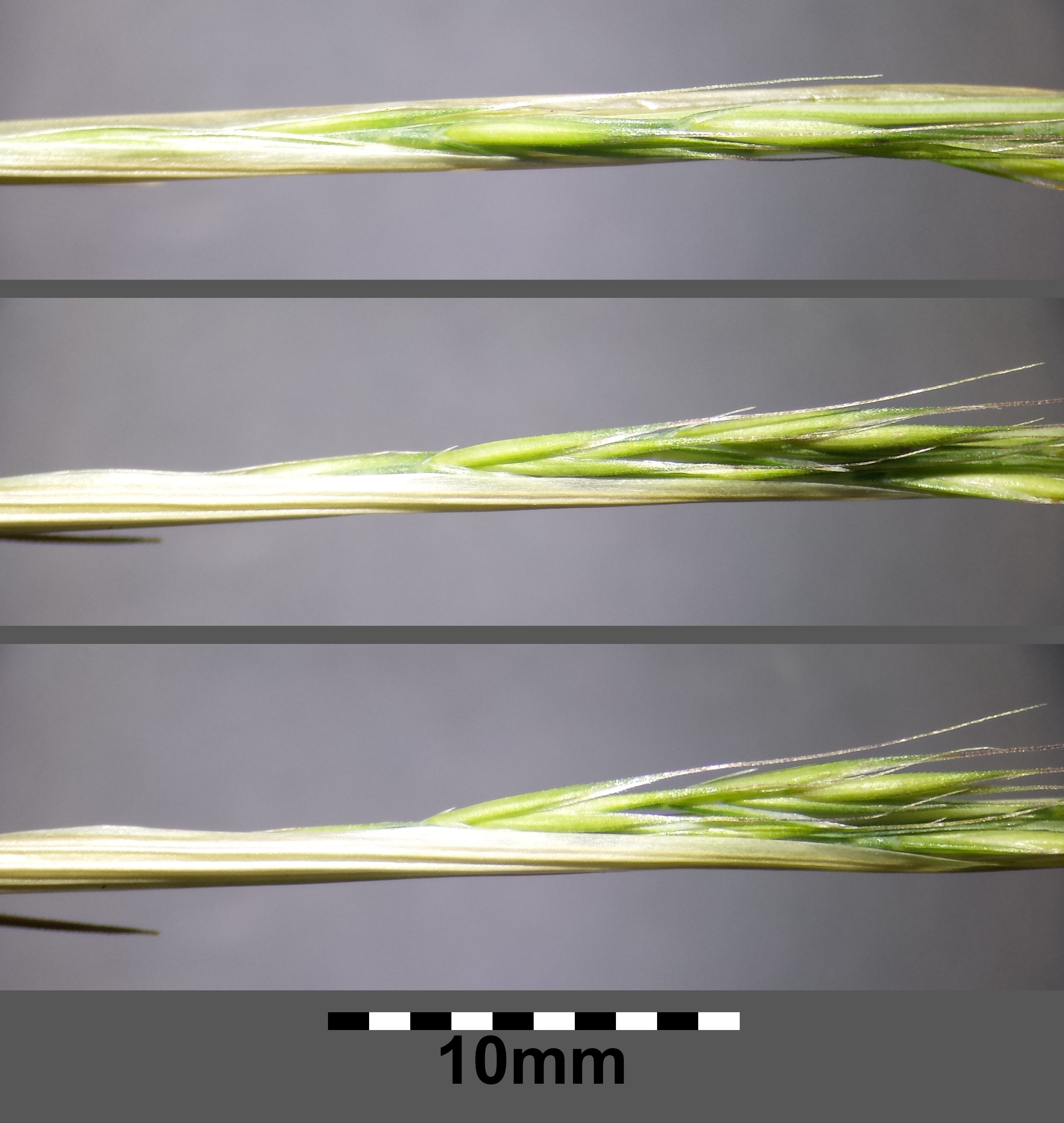 The bottom part of the panicle is surrounded by the sheath of the topmost leaf Taxonym: Vulpia myuros ss Fischer et al. EfÖLS 2008 ISBN 978-3-85474-187-9 Location: Floridsdorf rail station, Vienna-Floridsdorf - ca. 160 m a.s.l. Habitat: ruderal area